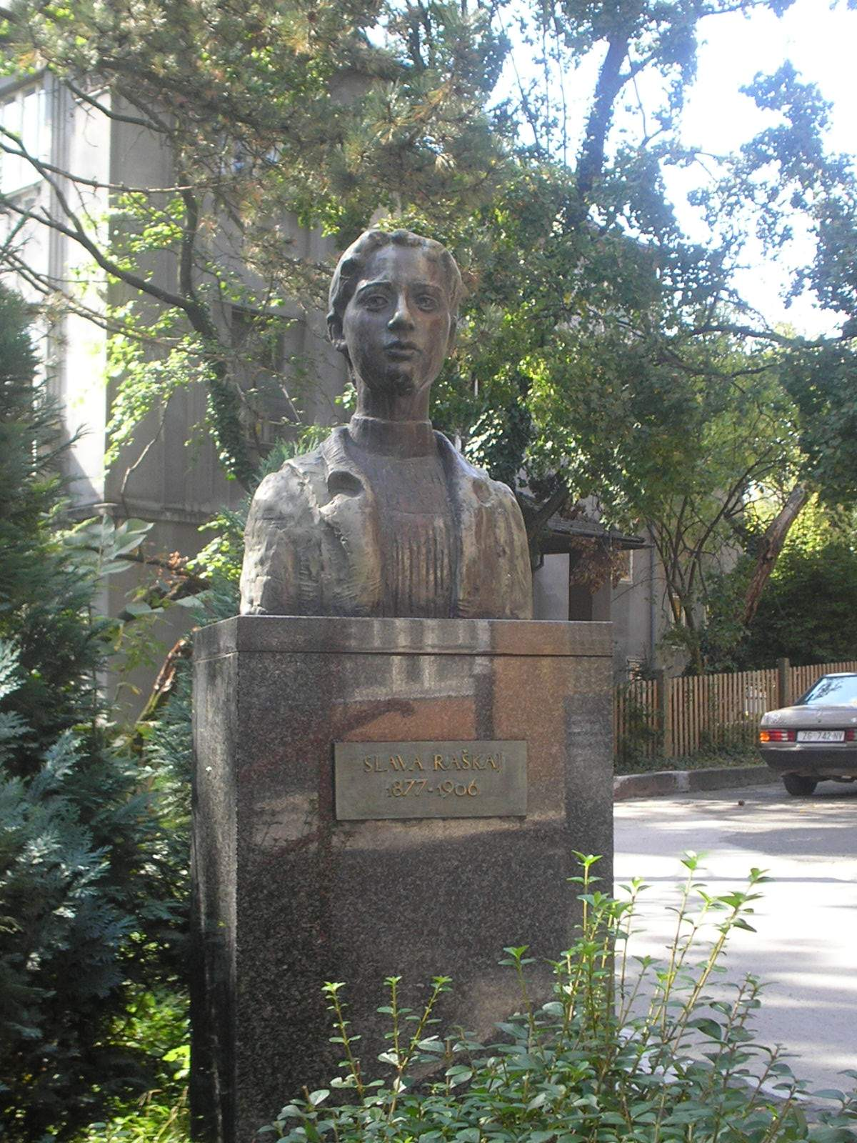 Slava Raškaj, croatian painter